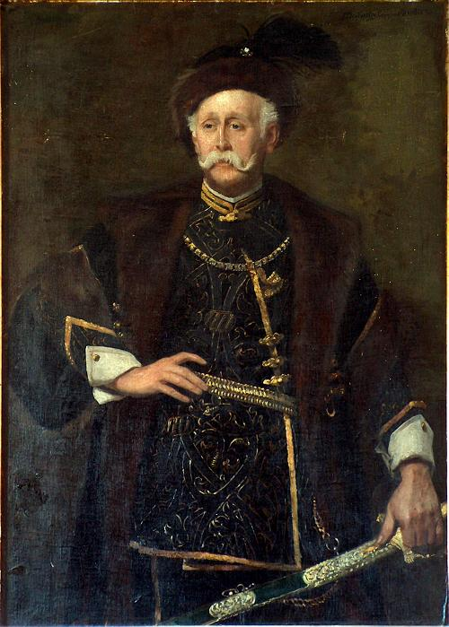 Portrait of Ján František Pálfi, last owner of Bojnice castle born 19.8.1829 - died 2.6.1908